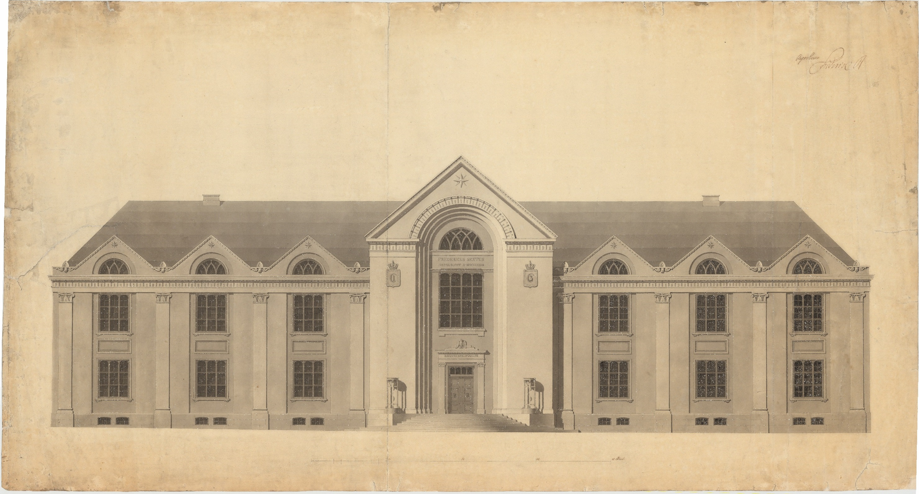 Peder Malling rendering of the new building for University of Copenhagen on Frue Plads in Copenhagen, Denmark